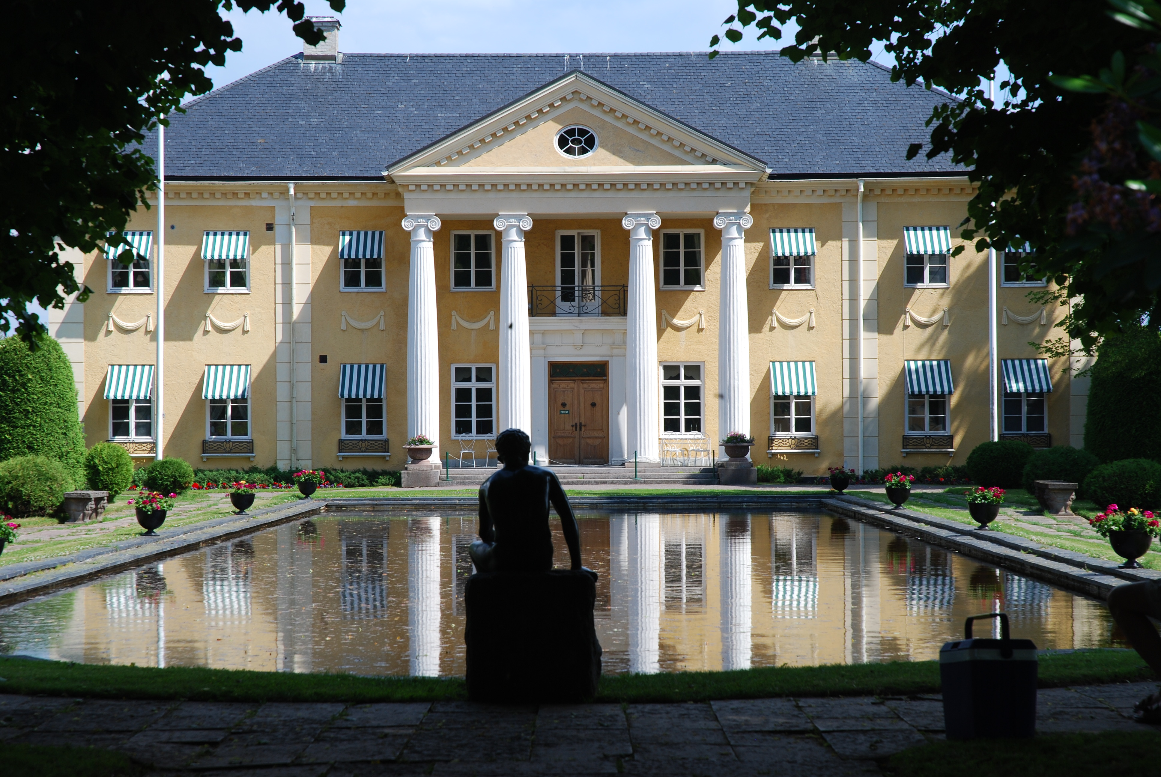 Rottneros Herrgård, Rottneros, Sweden